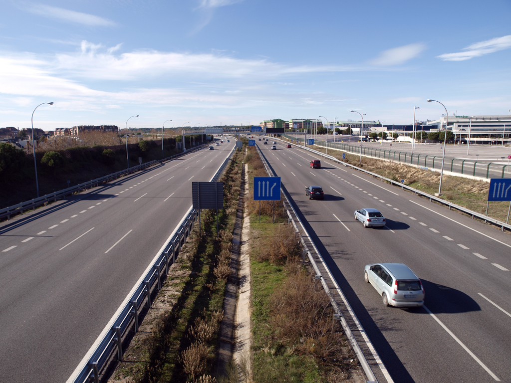 M-40 Highway, Spain. The M-40, in Spanish transport, is a Madrid orbital motorway.